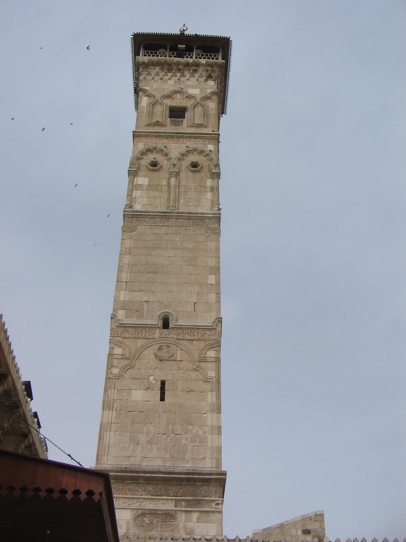 Great Mosque of Aleppo, minaret, Aleppo in 2006